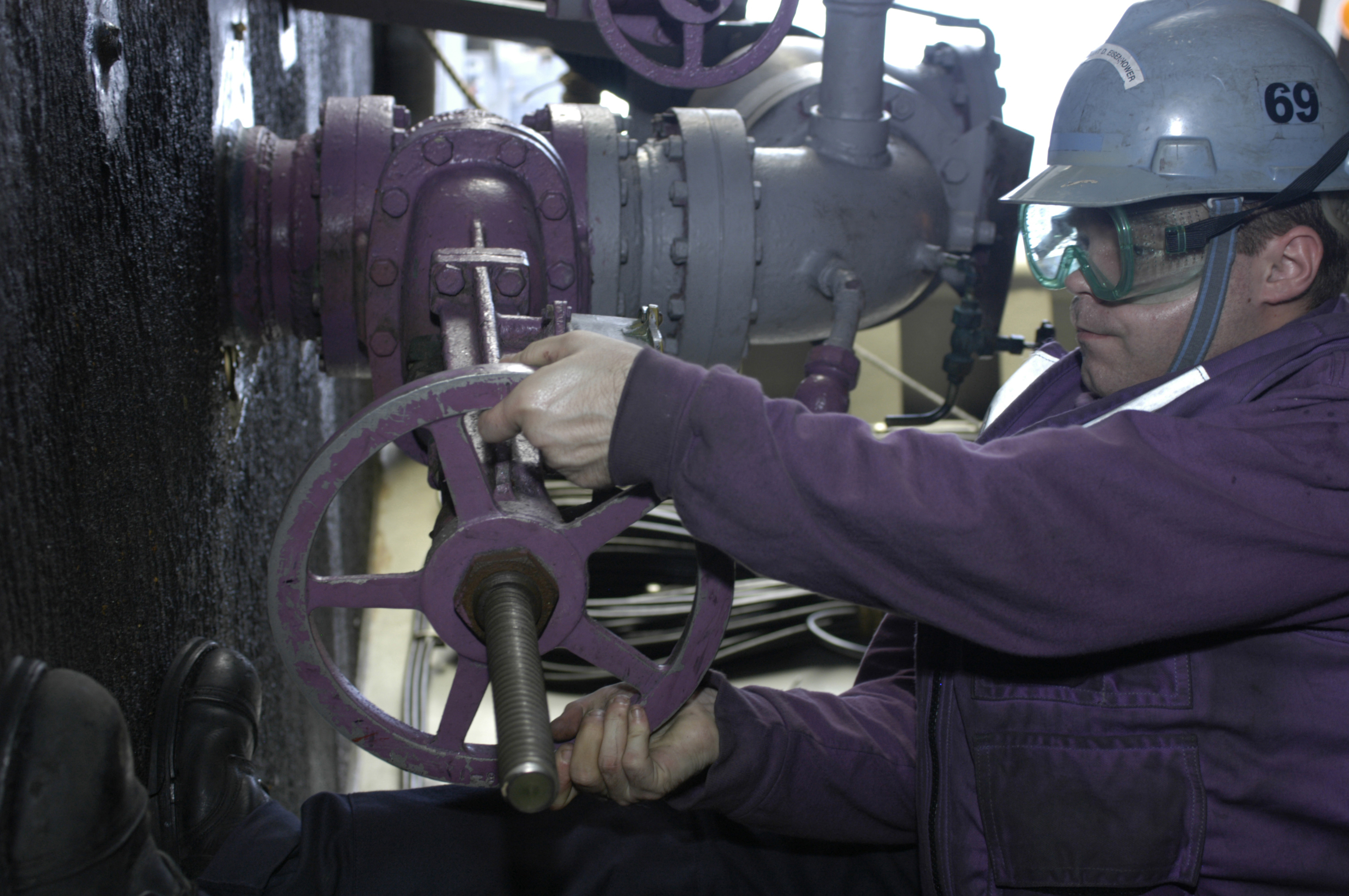 A U.S. Navy Sailor aboard the Nimitz class aircraft carrierNimitz-class aircraft carrier USS Dwight D. Eisenhower (CVN 69) opens a fuel valve Jan. 15, 2007, during an underway replenishment in the U.S. Naval Forces Central Command area of responsibility with the fast combat support ship USNS Arctic. (U.S. Navy photo by Mass Communication Specialist Seaman Clarence McCloud)